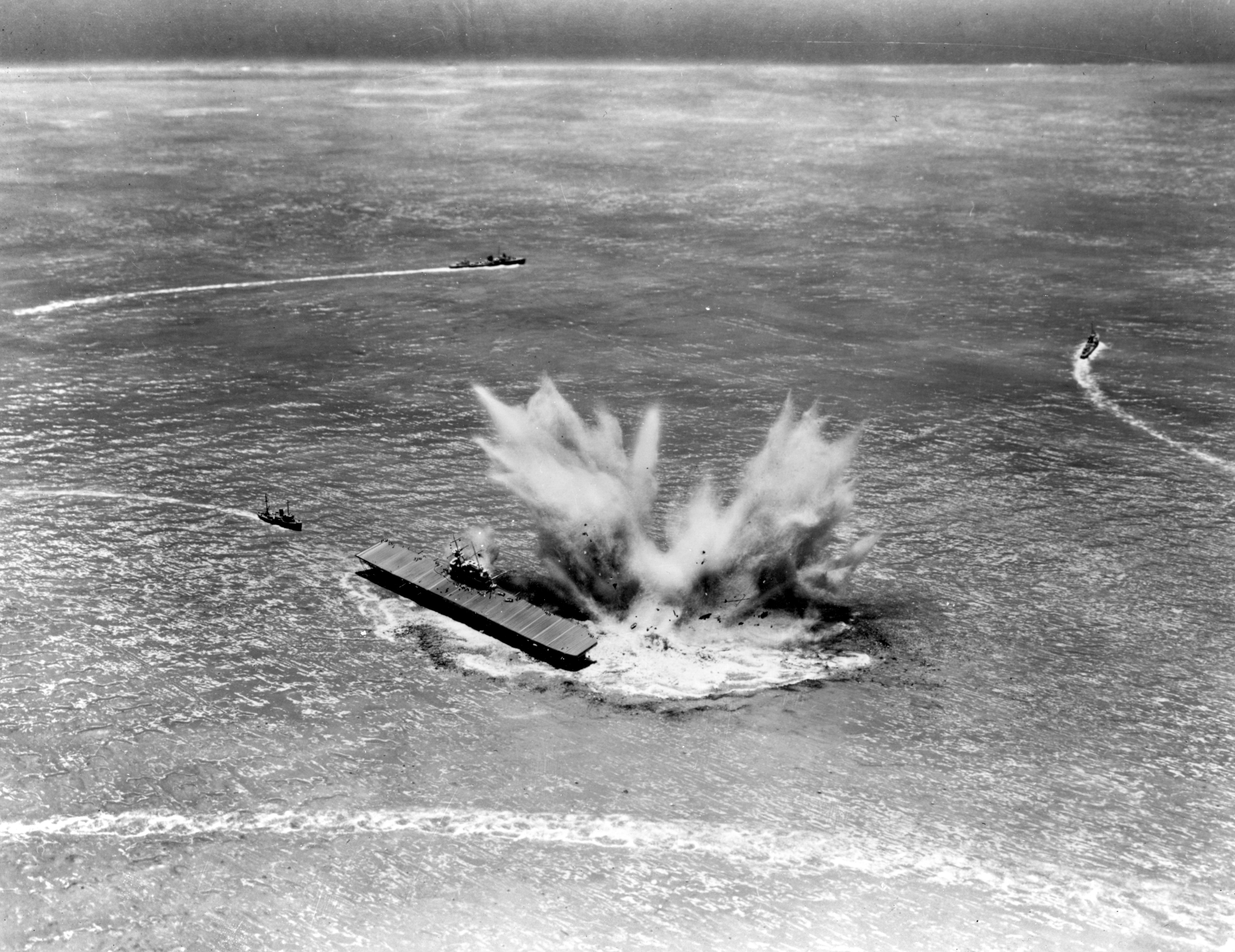 Diorama by Norman Bel Geddes, depicting the explosion of depth charges from USS Hammann (DD-412) as she sank alongside USS Yorktown (CV-5) during the afternoon of 6 June 1942. Both ships were torpedoed by Japanese submarine I-168 while Hammann was assisting with the salvage of Yorktown. USS Vireo (AT-144) is shown at left, coming back to pick up survivors, as destroyers head off to search for the submarine.